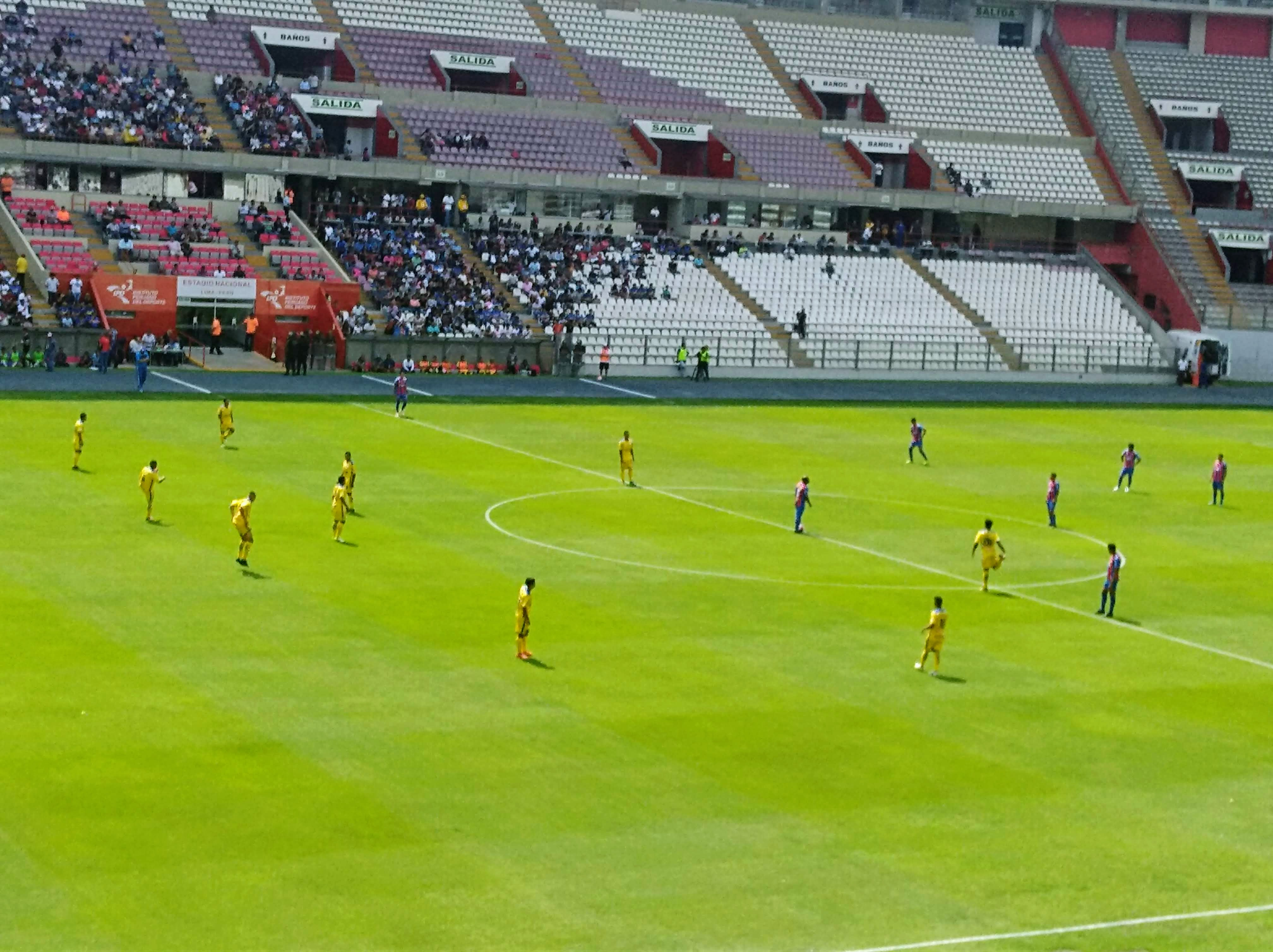 Moments before the star of the game betwen Santos FC and Alianza Universidad as part of 2018 Copa Perú at Estadio Nacional